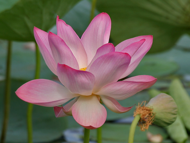 Indian lotus, sacred lotus or bean of India Nelumbo nucifera at Lotus Pond, Hyderabad, India.